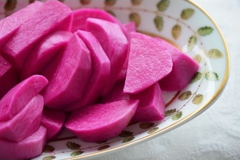 مخلل الشـوندر